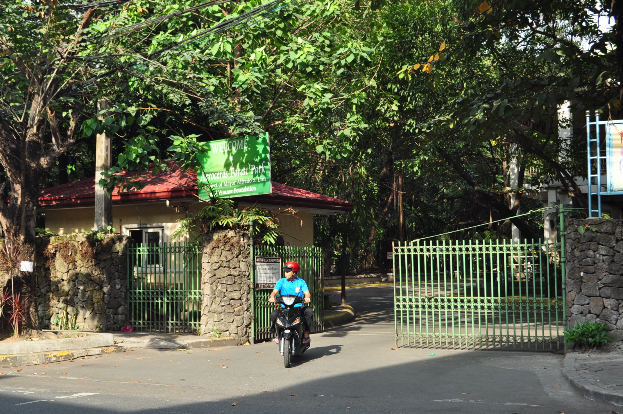 Arroceros Forest Park in Manila, Philippines